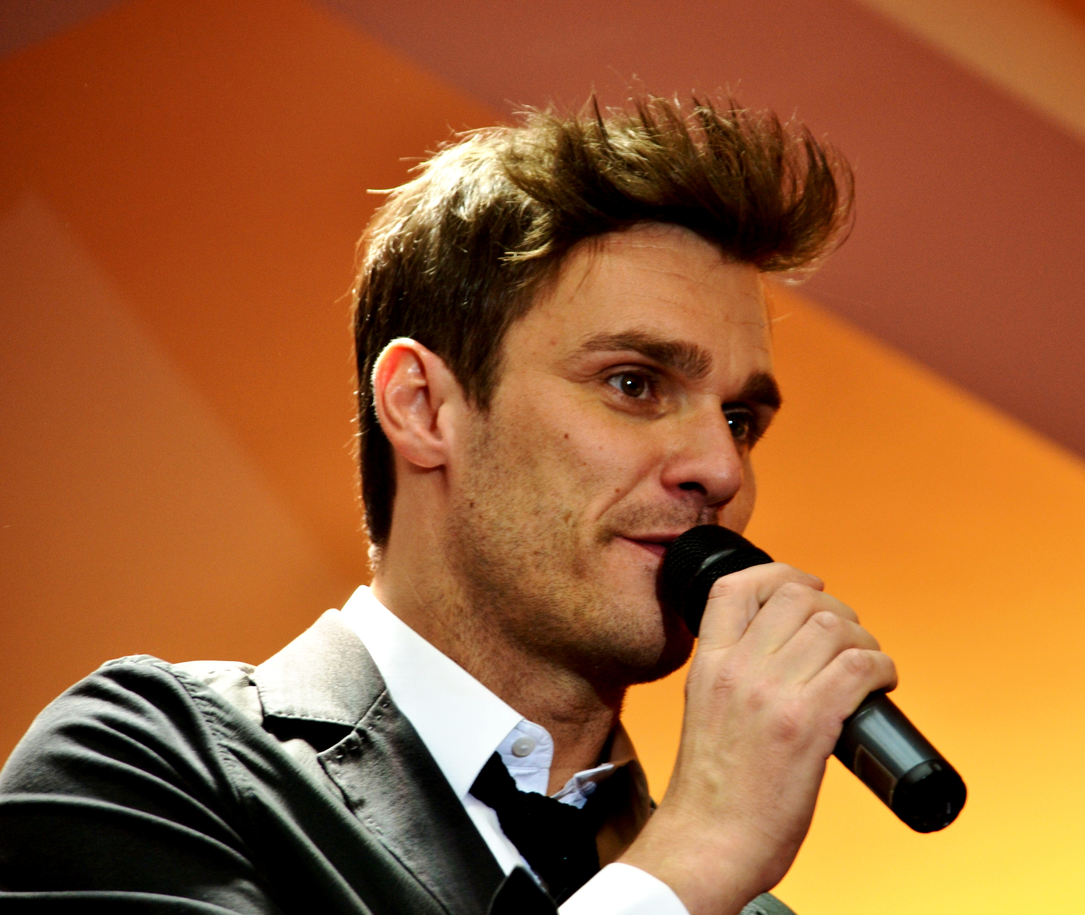 Leoš Mareš, Czech presenter